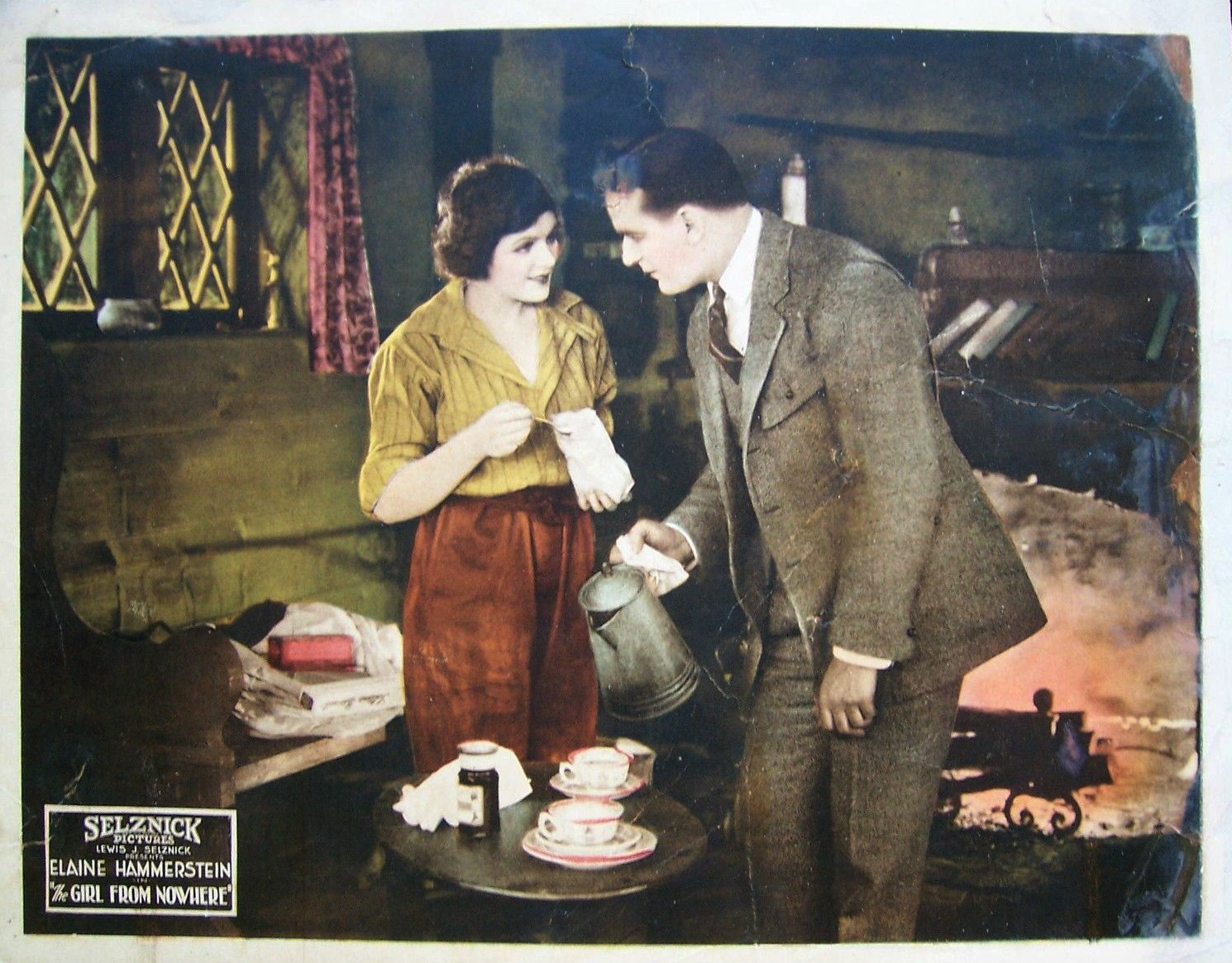 Lobby card for the American film The Girl From Nowhere (1921).